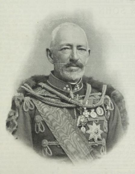 Archduke Joseph Karl Ludwig